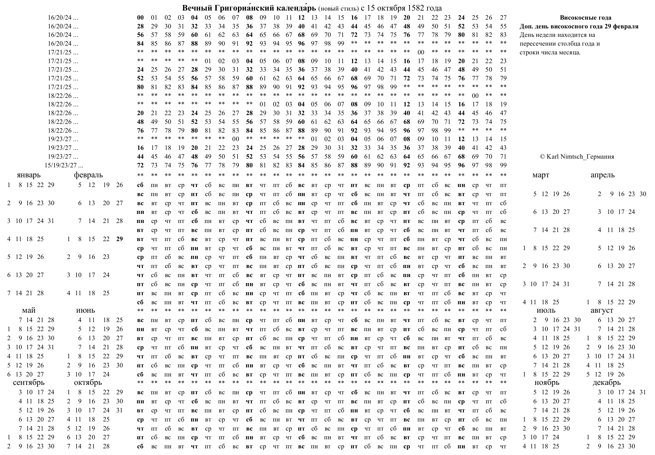 Permanent Gregorian calendar: Look up the day of the week (Sun.-Sat.) of any calendar date from October 15, 1582 to December 31, 2799. A translated picture from German wikipage gregorianischer kalender